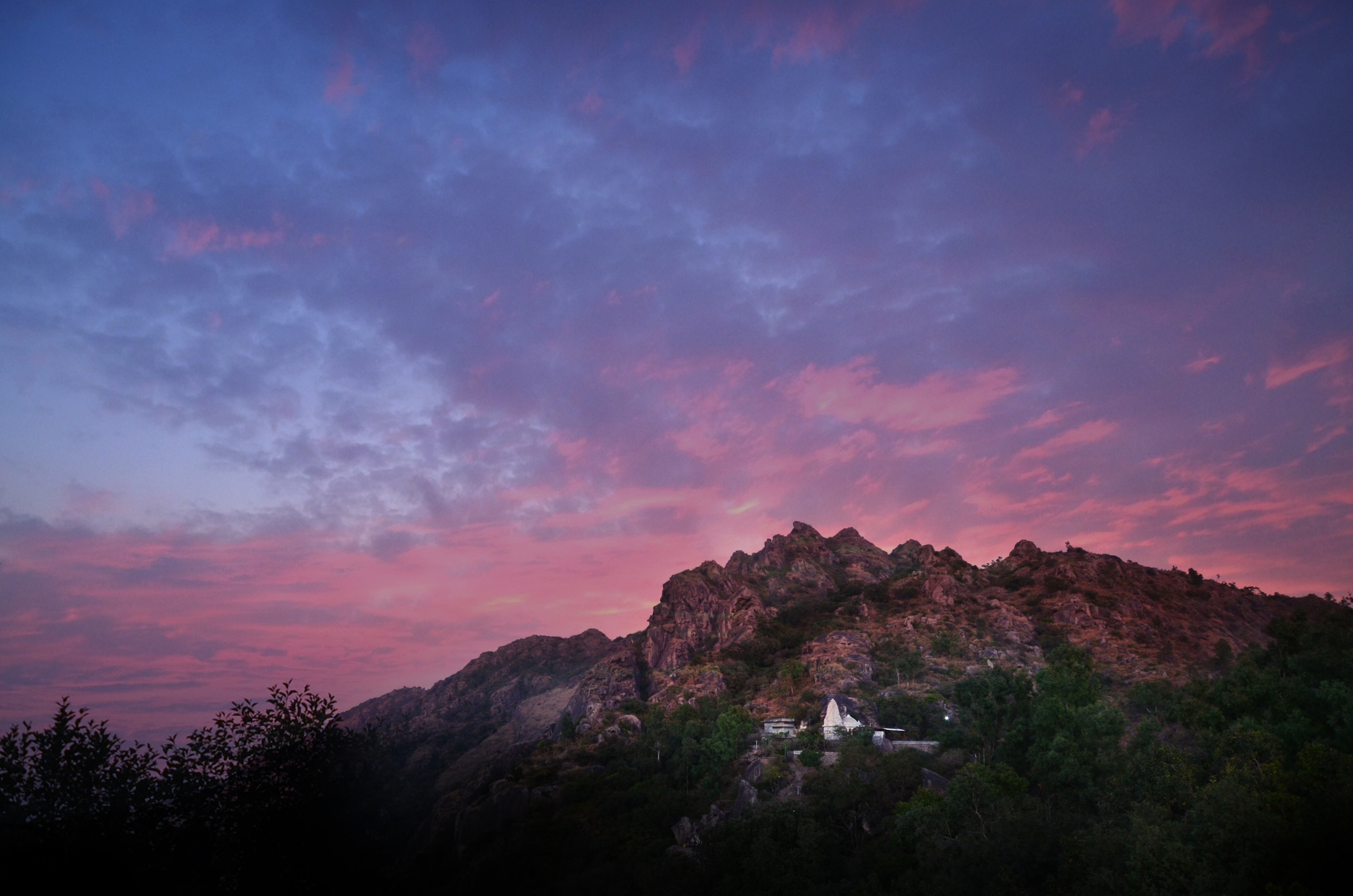 Sunset from the sunset point of Mt. Abu, a hill station in Rajasthan state of India. The town is set on a high rocky plateau in the Aravalli range and surrounded by forest, it offers a relatively cool climate & views over the arid plains below.